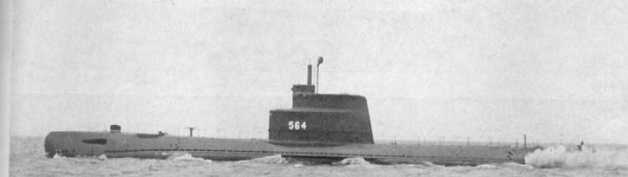 USS Trigger (SS-564) renamed Livio Piomarta (S 515) in Italian Navy